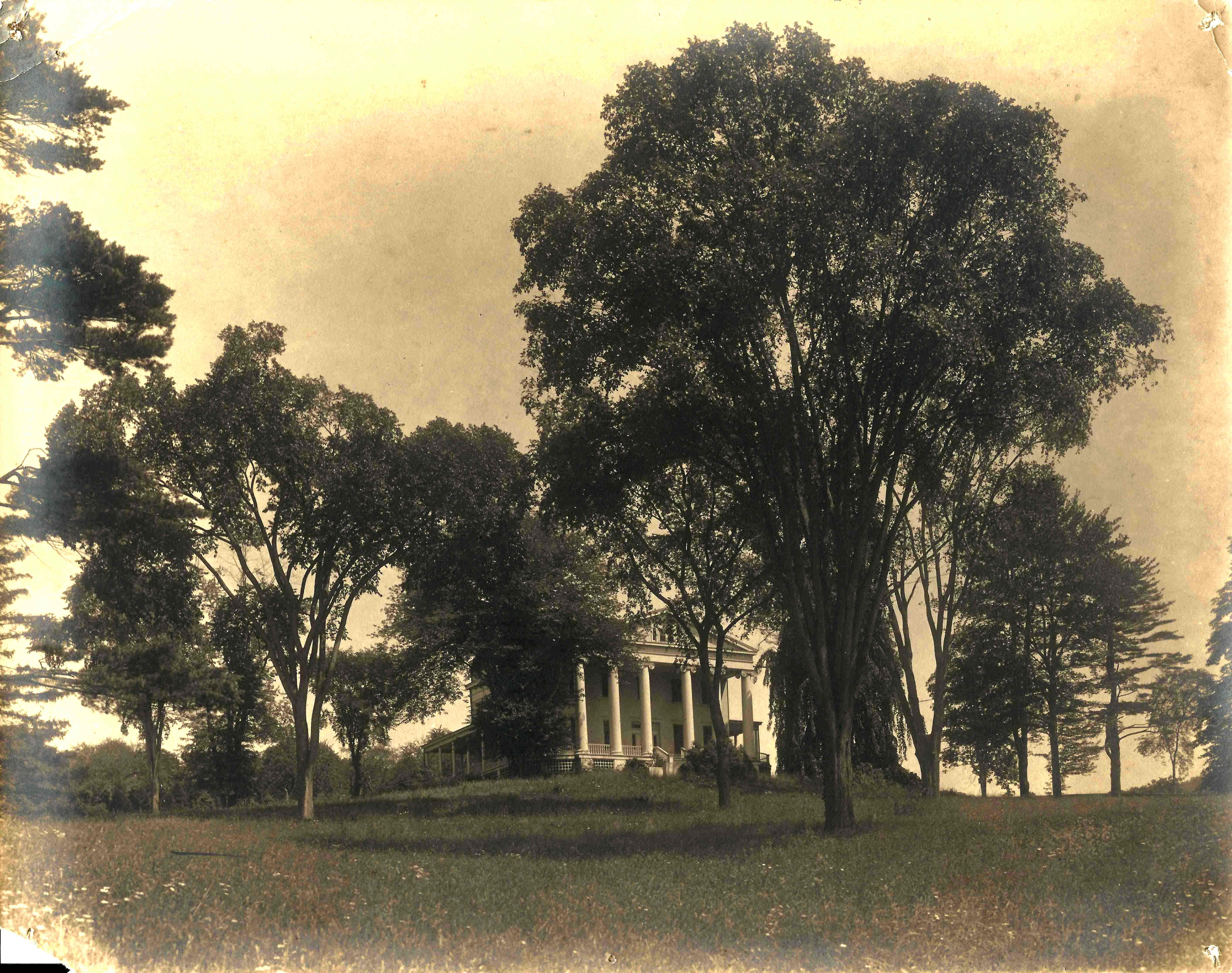 This is an image of Hillside, John Lorimer Worden's birthplace on Albany Post Road. It was later "Scarborough House" of Stein and Day, and was demolished.